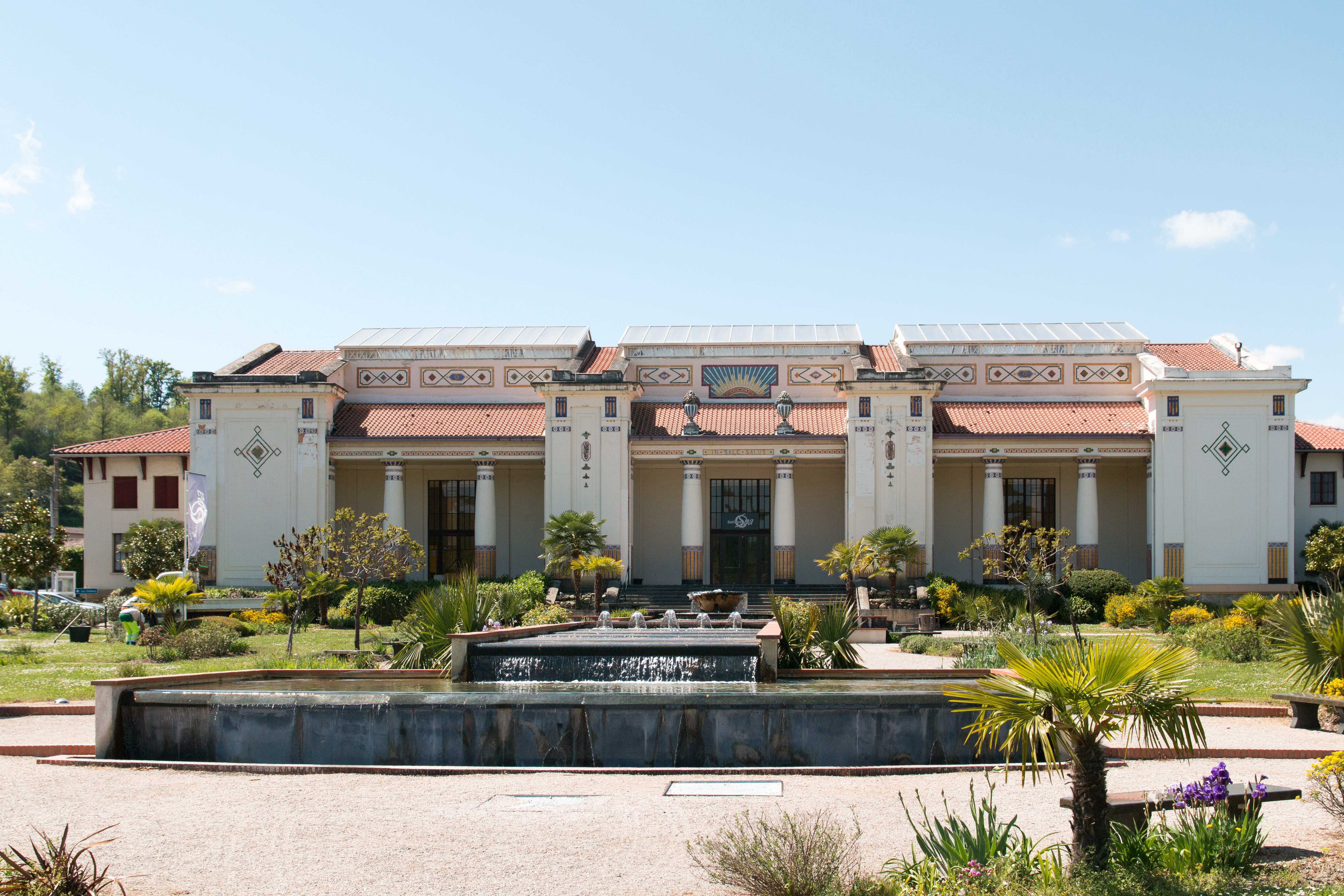 The news thermal baths (1925).